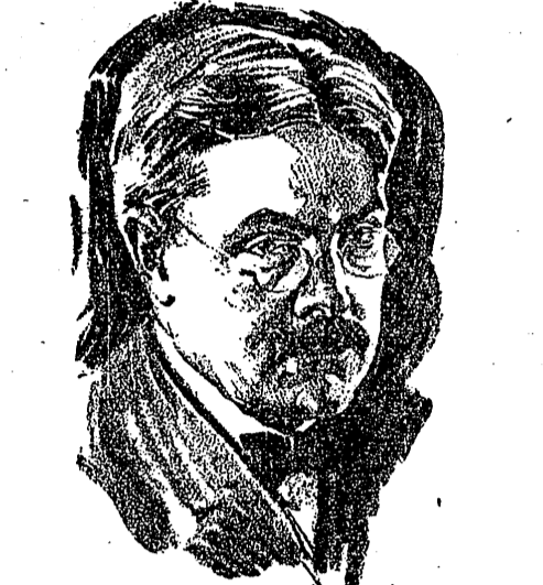 Drawing of David T. Abercrombie which appeared in a New York Times advertisement announcing his appointment as VP with the firm Baker, Murray and Imbrie.